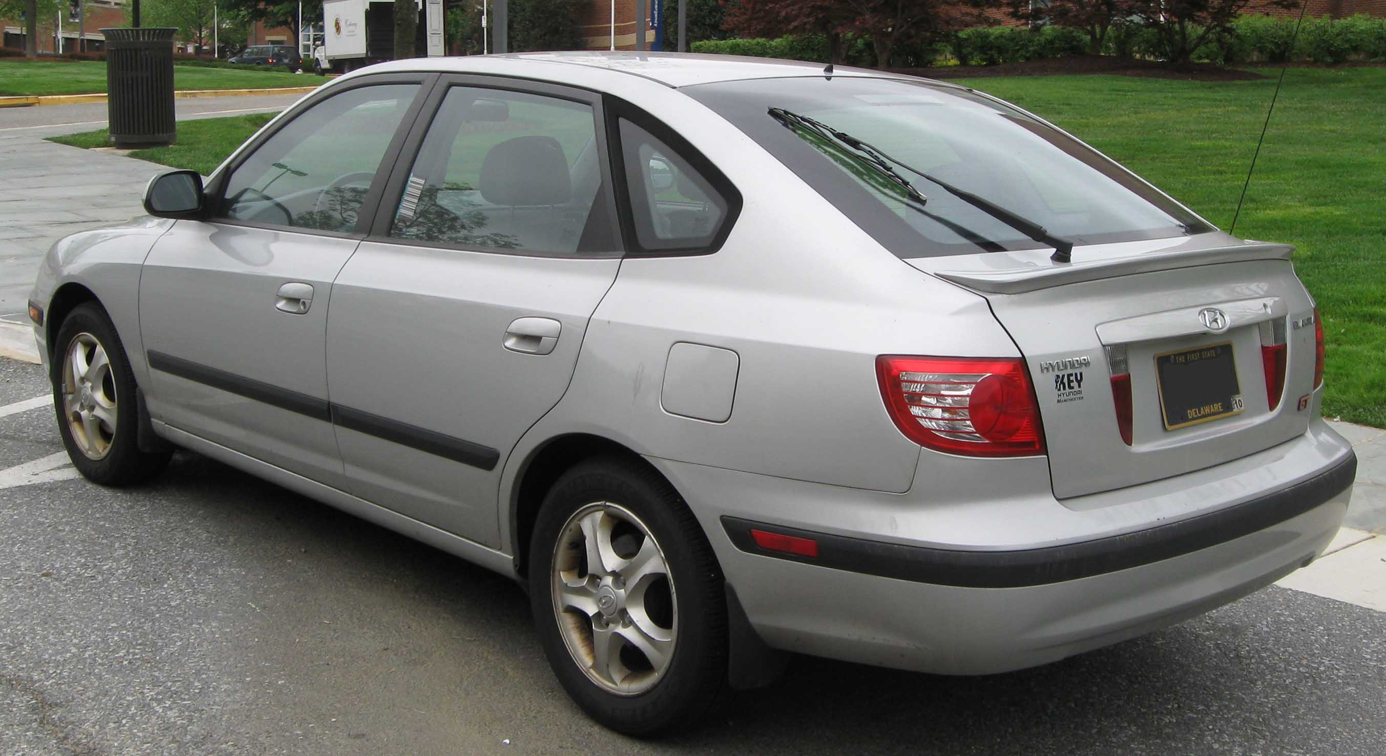 2004-2006 Hyundai Elantra photographed in College Park, Maryland, USA.